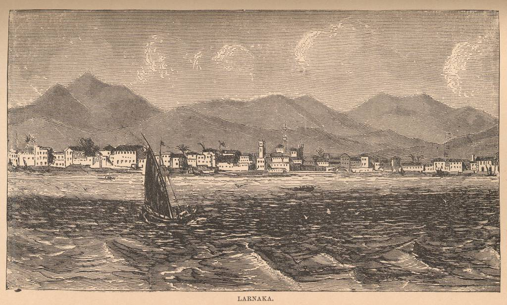 The town of Larnaka, viewed from the water.